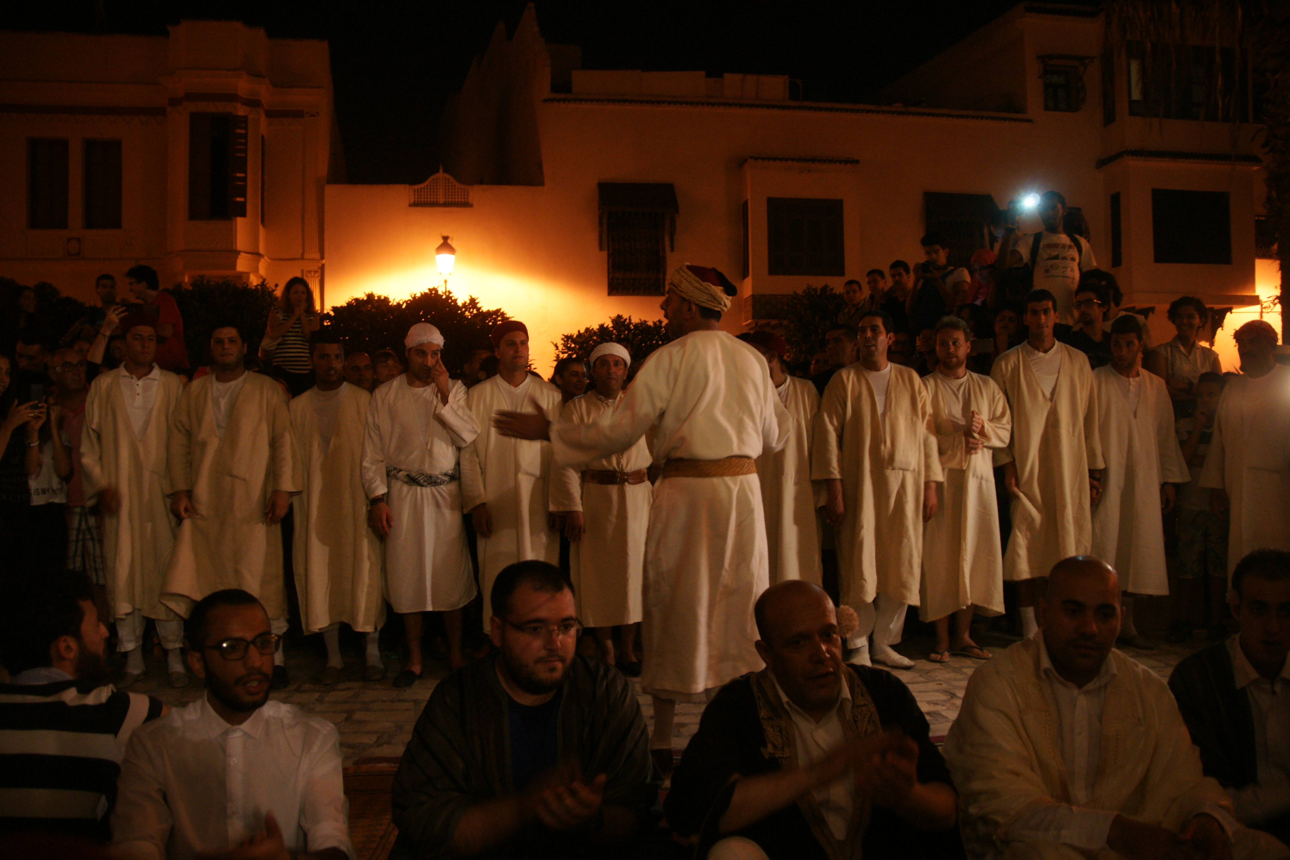 This is an image of music and dance from Tunisia